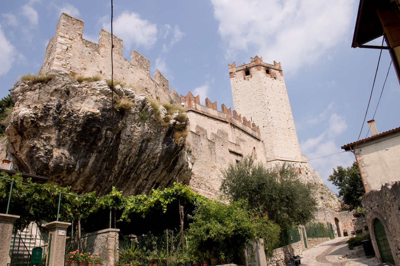 The Scaliger castle in Malcesine.